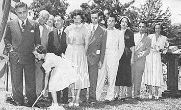 Religious school groundbreaking, 1950, Temple Israel (Memphis, Tennessee)